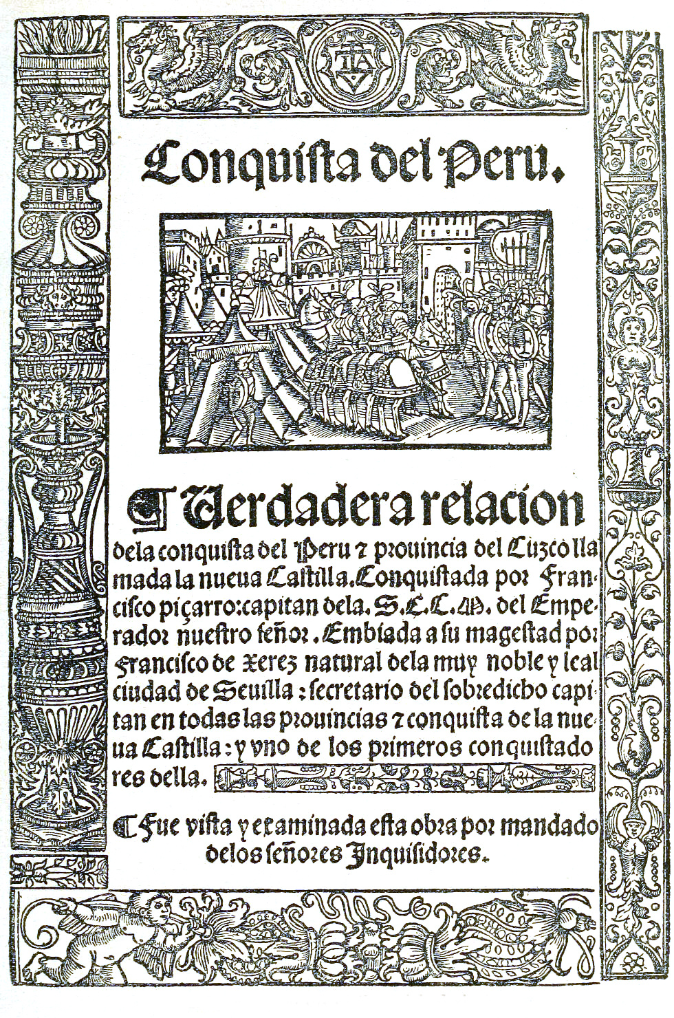 Cover of book by Xeres, Francisco de (1547) Conquista del Peru.